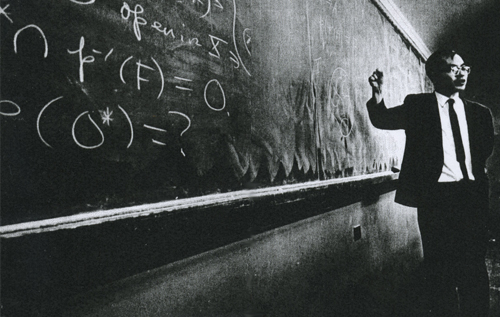 Hing Tong at the blackboard.